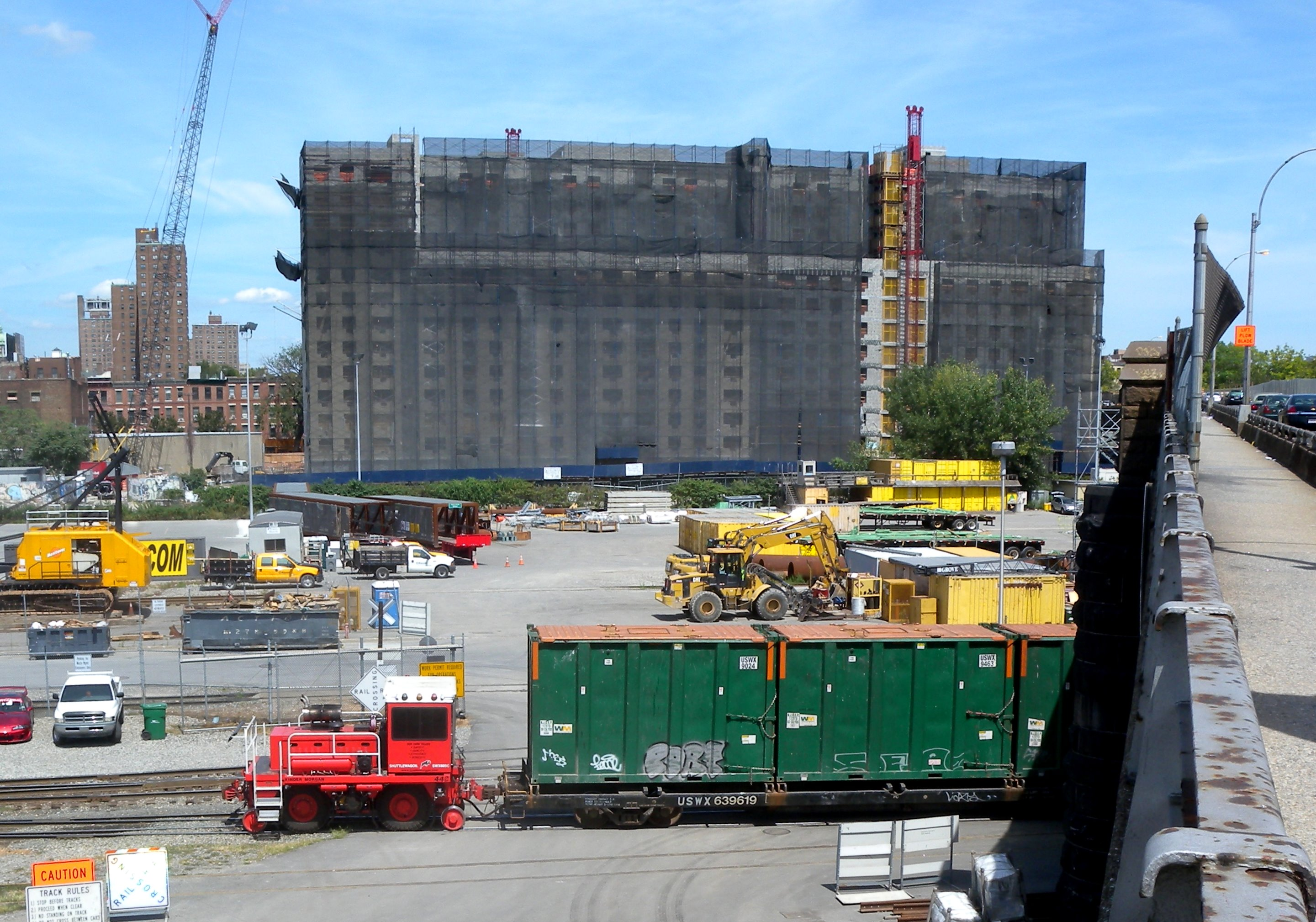 Looking northeast from old Willis Avenue Bridge as Shuttlewagon tows a train westward on a sunny midday. Green containers are for hauling municipal solid waste.